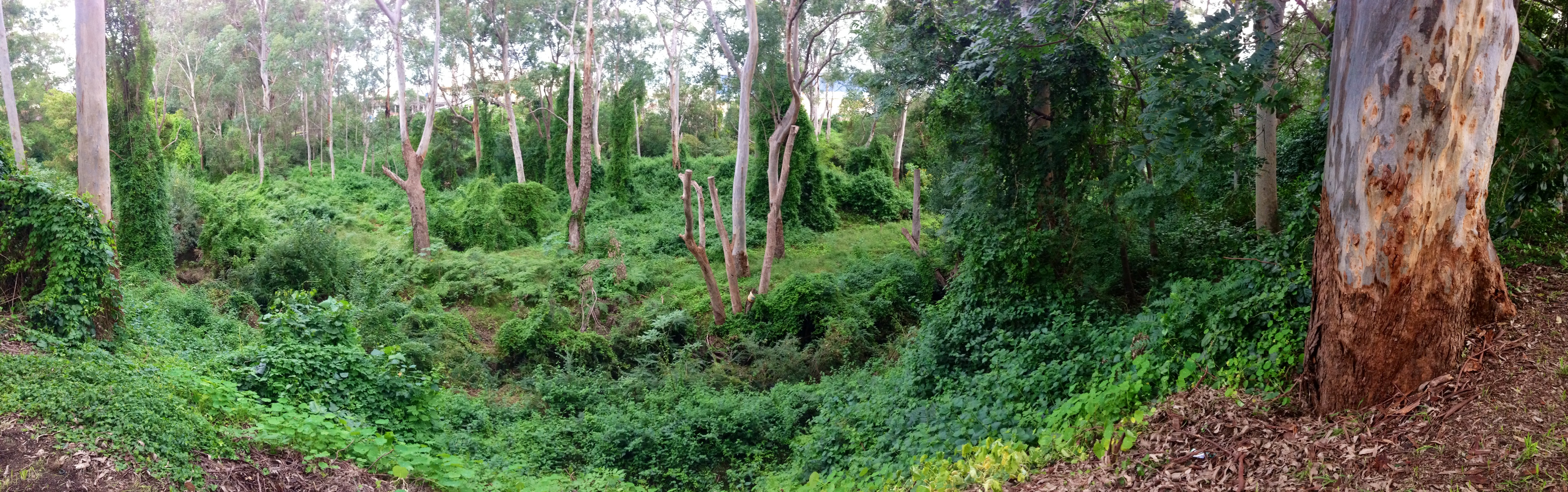 Nearer to the mouth of the Creek